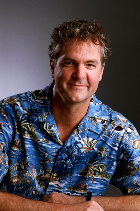 American scientist David Haussler.